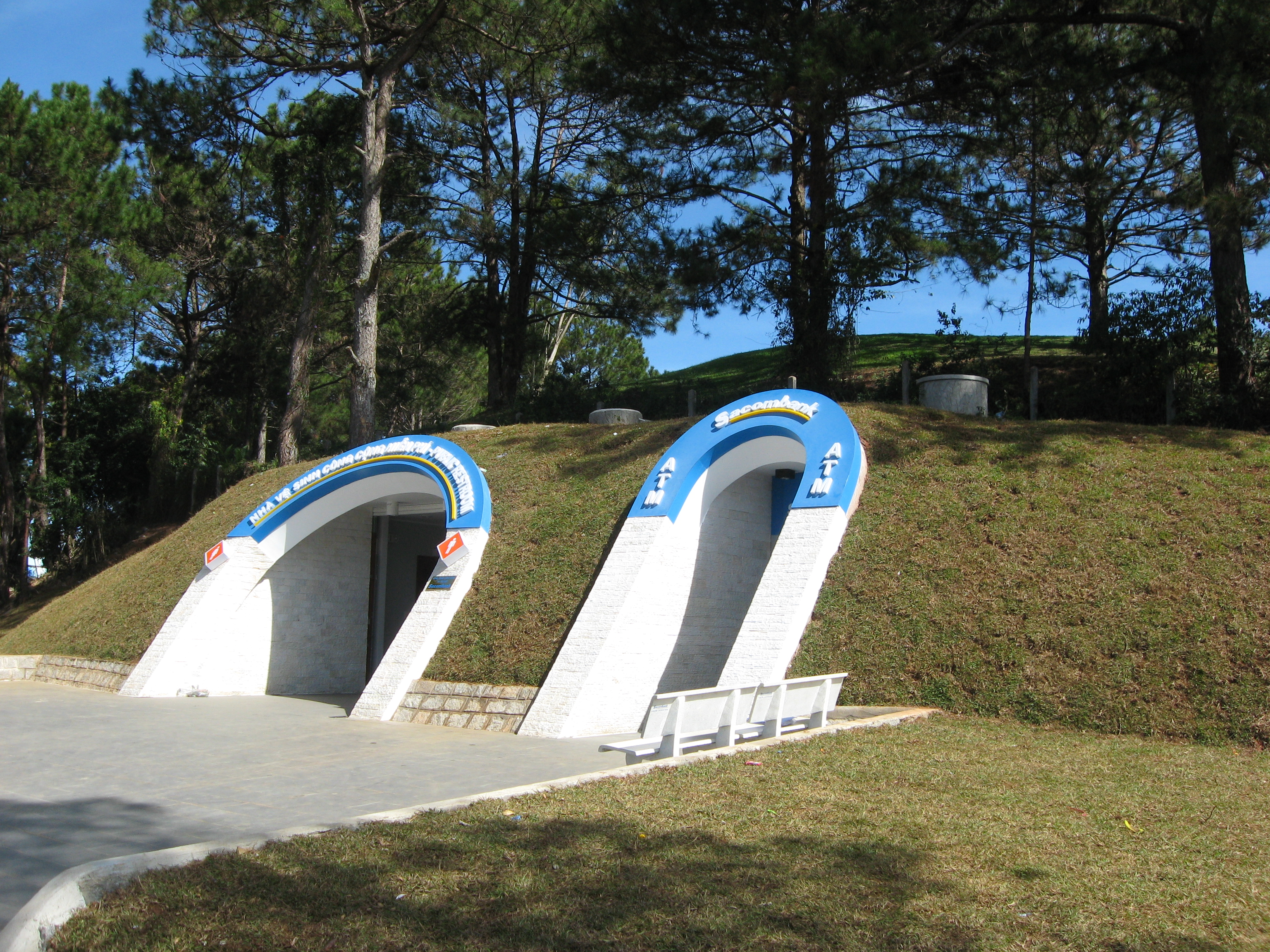 Public toilet, near Doi Cu